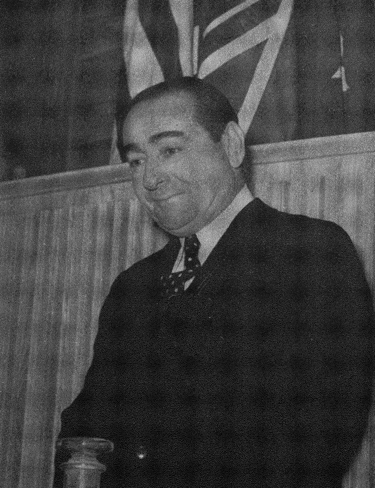 Adnan Menderes, Turkish prime minister